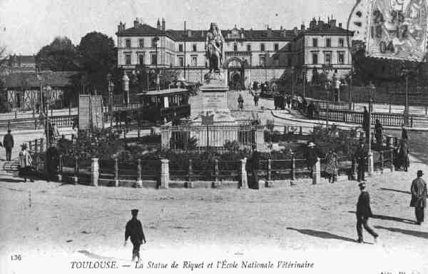 Postcard showing the ancient veterinary school of Toulouse, behind the railway and the Canal du Midi, with the statue of Pierre-Paul Riquet foreground